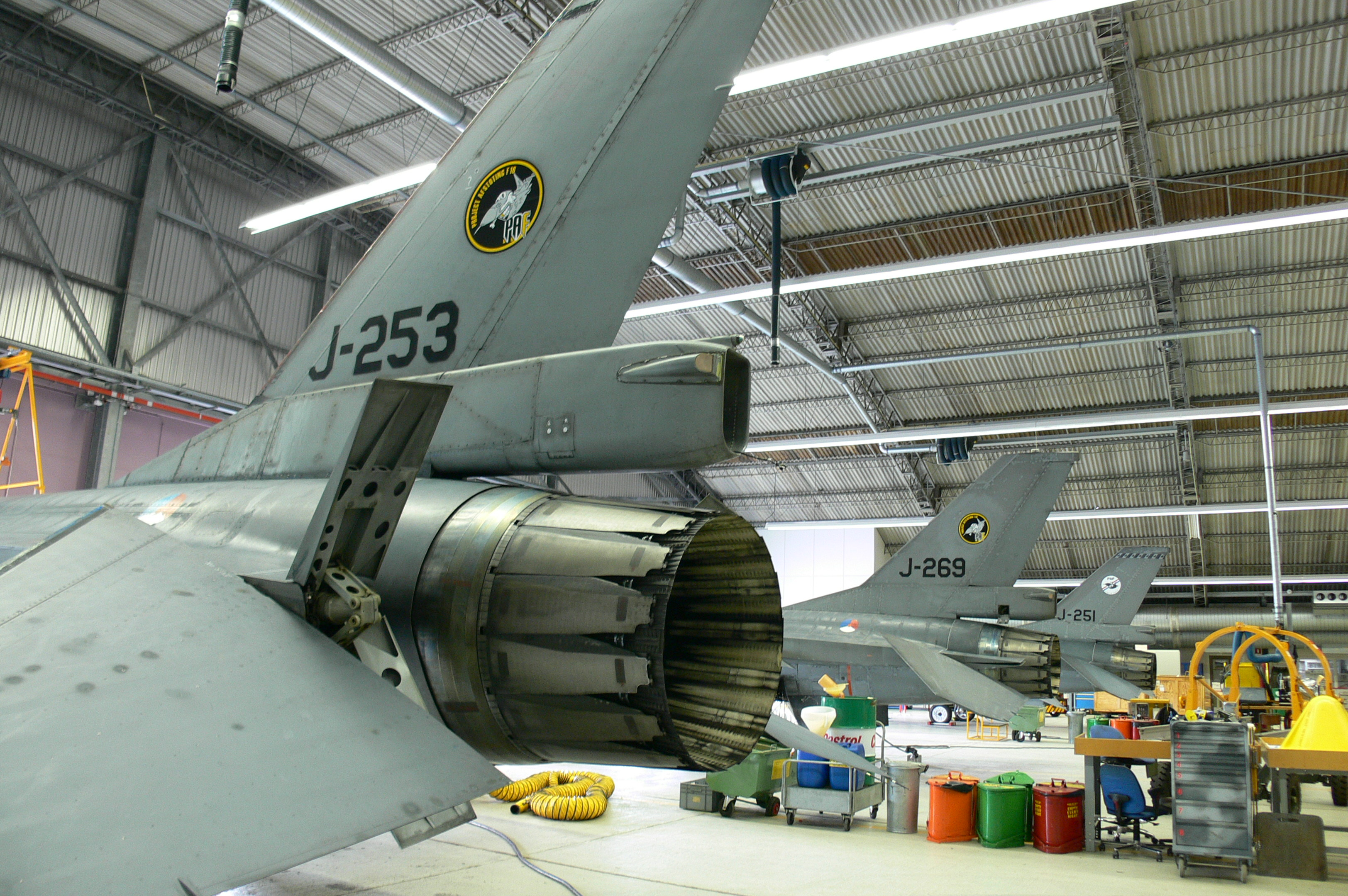 Two days before they were flown off to be either stored or sold on, i visited the last three F-16's at Twenthe Airbase being readied for that in some cases final trip. The base was already closed and abandoned, but for a few crewchiefs working on these birds. They all were flown on the 6th of june (2 days after my visit) to Volkel Airbase to be processed further. The fate of J-251: The fate of J-253: The fate of J-269: J-269 has been sold to the Royal Jordanian Air Force and still active, the other two are in storage or already scrapped.